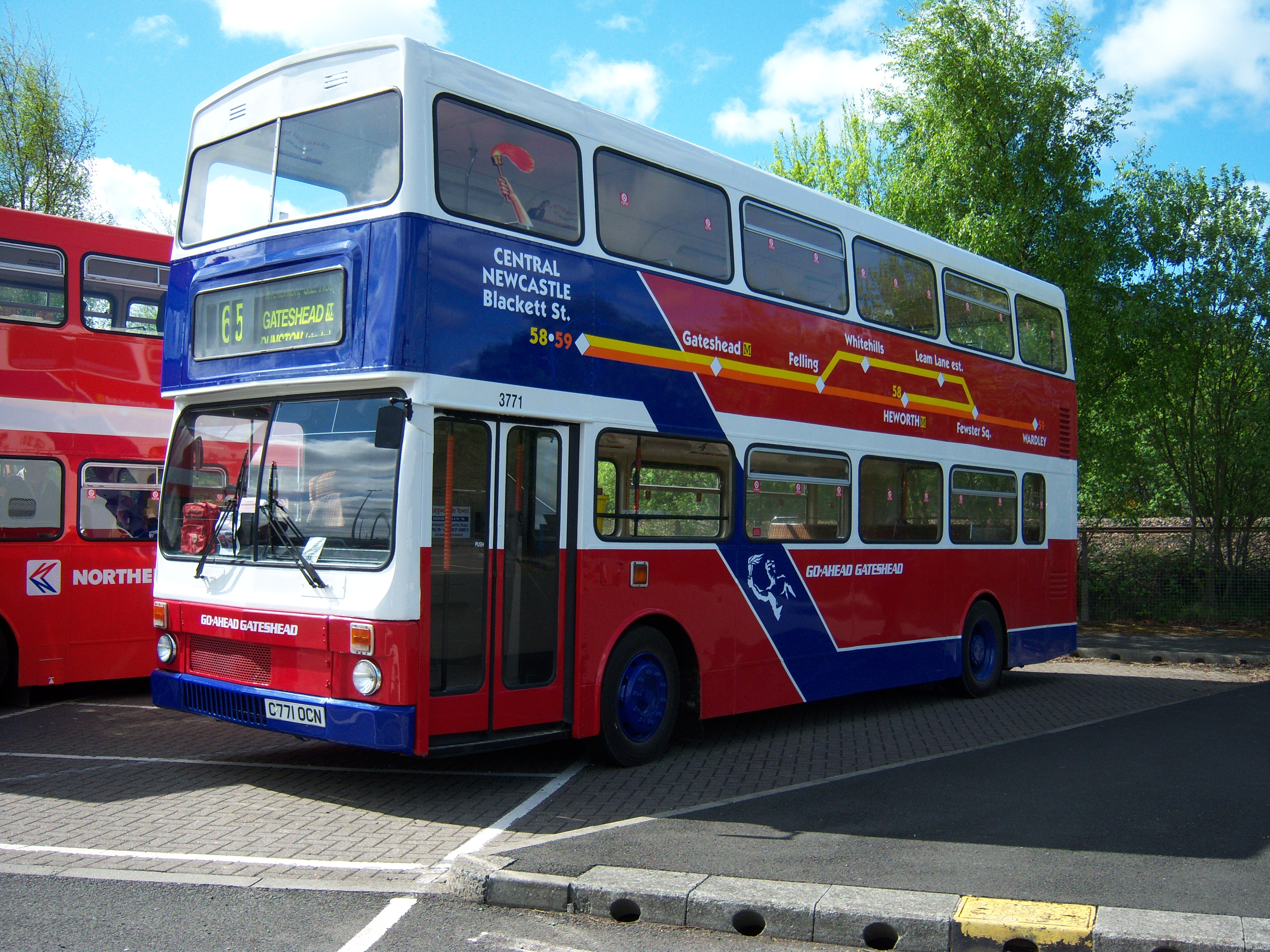 Preserved Go Ahead Gateshead 3771 (C771 OCN), a MCW Metrobus MkII, on display at the 2009 Metrocentre bus rally.